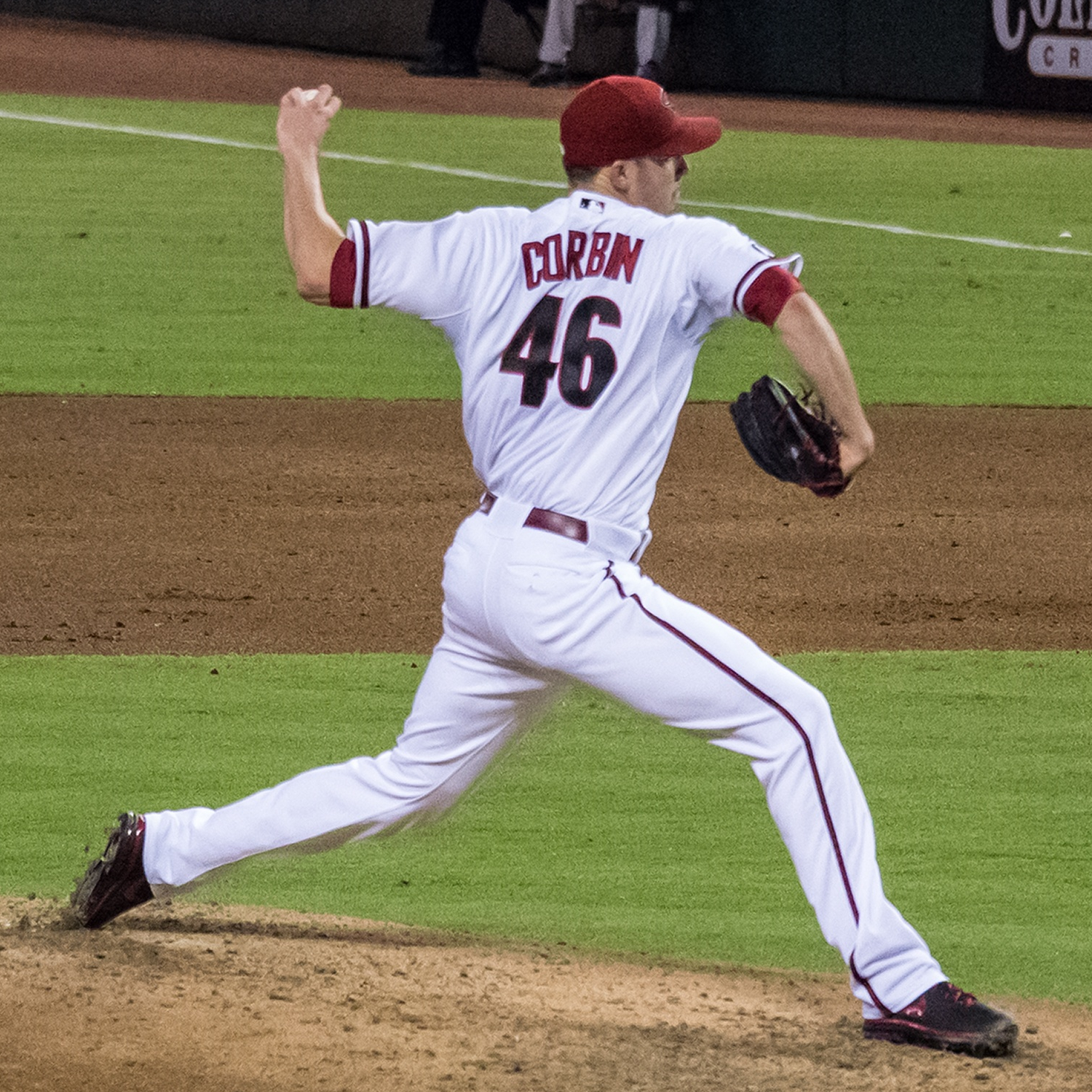 Patrick Corbin